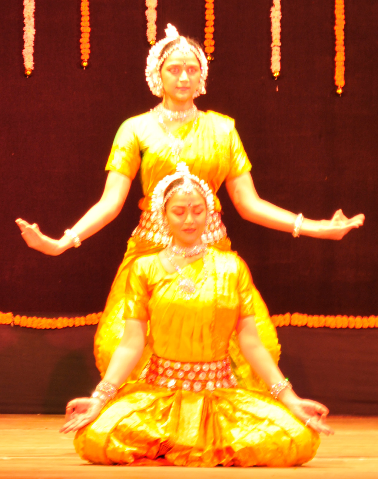 Odissi dancers